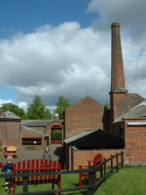 Home Farm, Tatton Park A working farm, open to the public as part of the National Trust's Tatton Park.